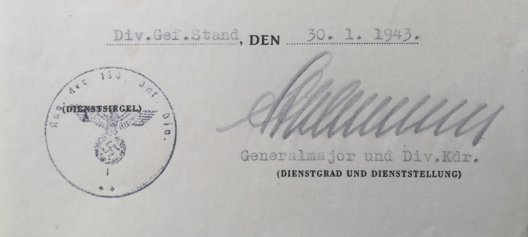 Signature of Generalmajor Hans Schlemmer on a Certificate of award for the German War Merit Cross with Swords 2nd Class